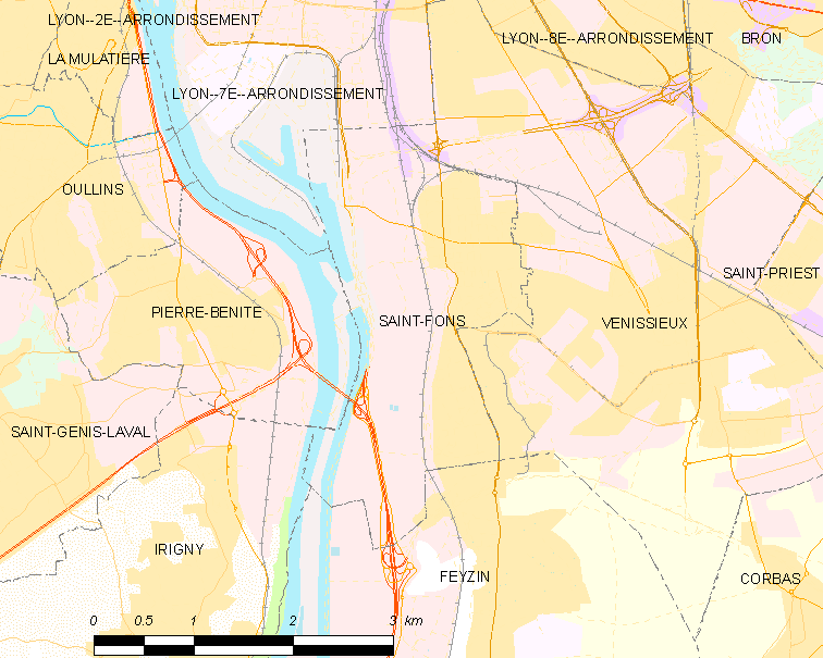 Map of French municipality